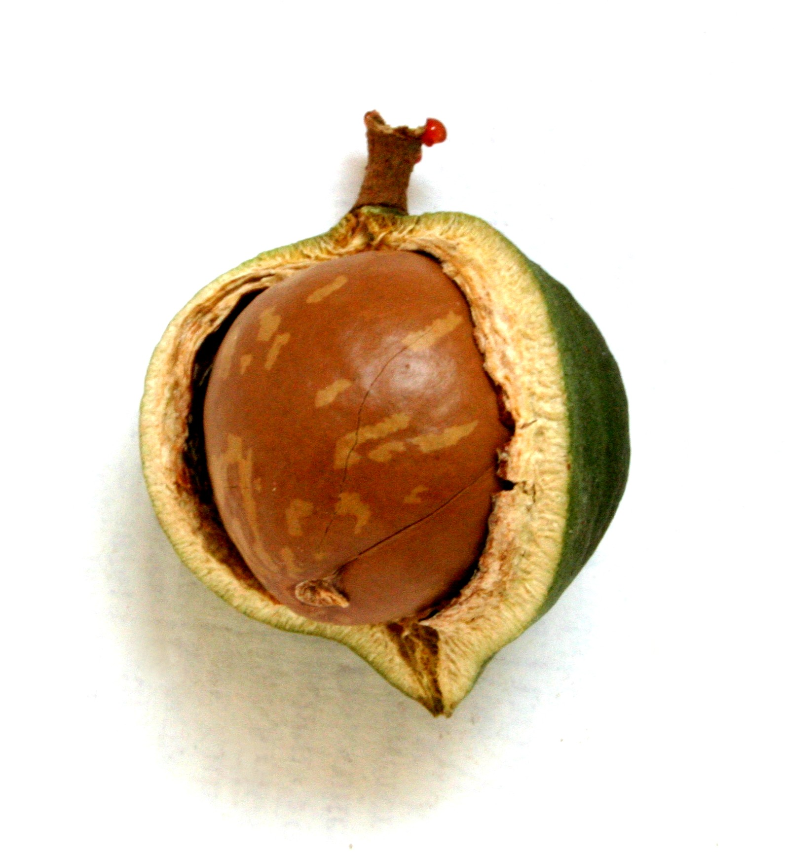 Macadamia fruit with exocarp splitting and shrinking to reveal the nut - tree growing in Johannesburg, South Africa